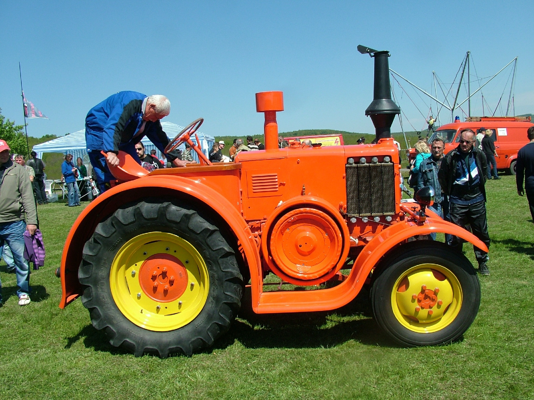 I.A.M.E. Pampa tractor at Traktormajális 2011, Bokor, Hungary